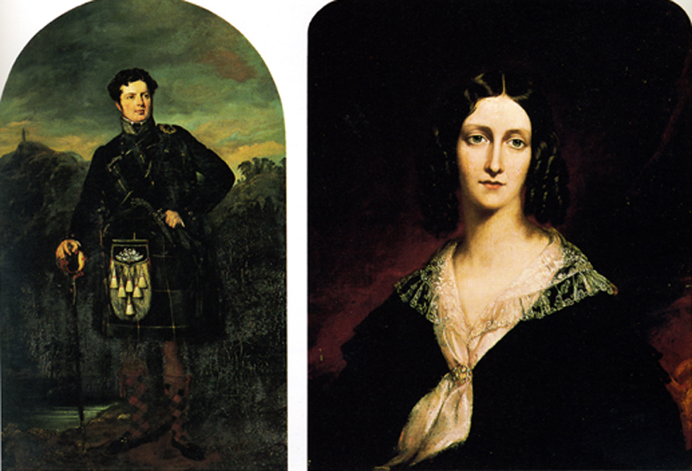 Campbell Drummond Riddell and his wife Caroline Stuart Riddell (nee Rodney. Built Lindsay, Darling Point in 1834.